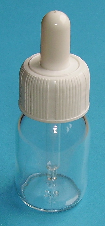 Glass drop counter screwed onto a 30 ml flat-bottomed colorless glass vial. Conventional device, used in pharmacy.